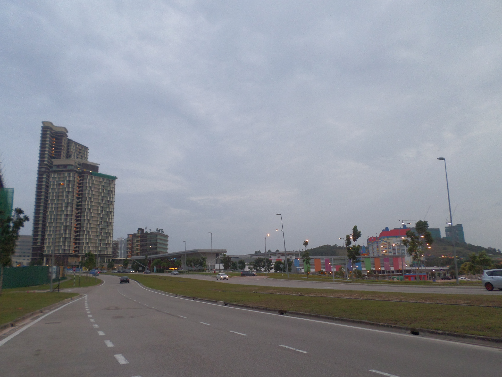 Medini Iskandar Malaysia, Iskandar Puteri, Johor Bahru, Johor, Malaysia